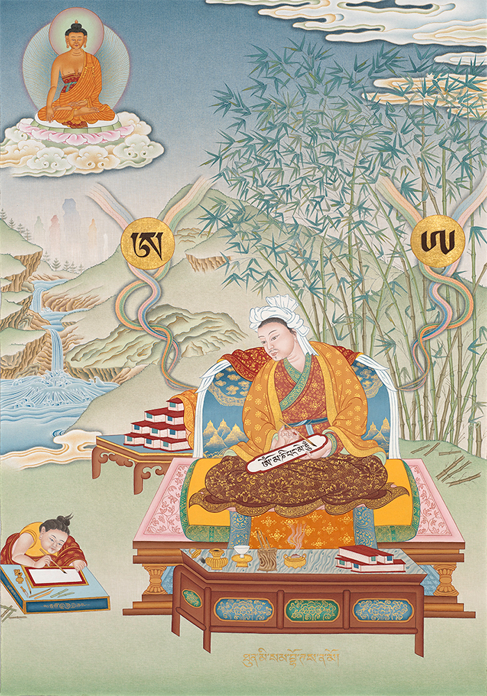 Thönmi Sambhota Thangka